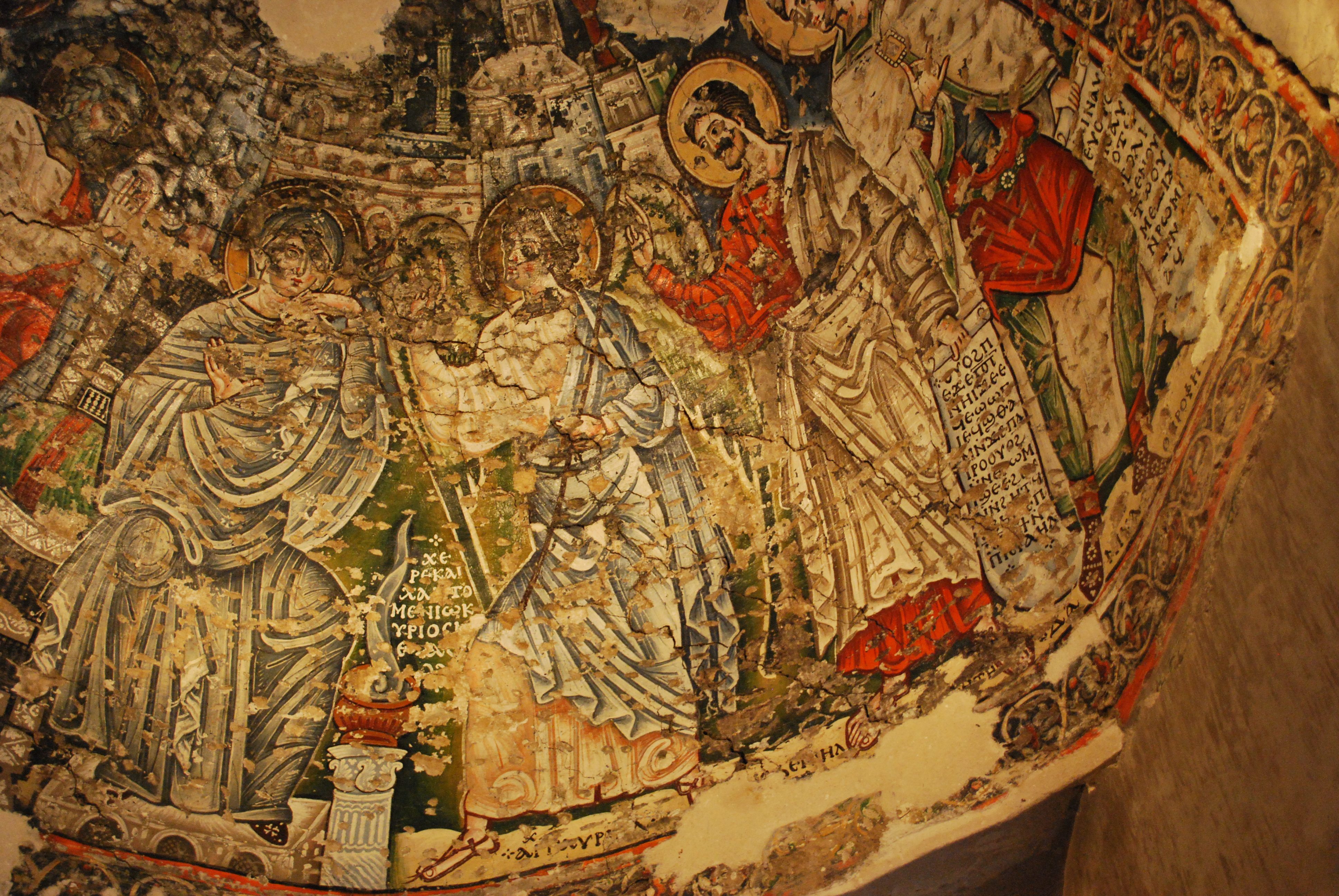 Coptic Fresco at Wadi Natrun monastery. The Fresco was under a syrian layer, which was removed in 2007.